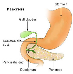 picture of the pancreas